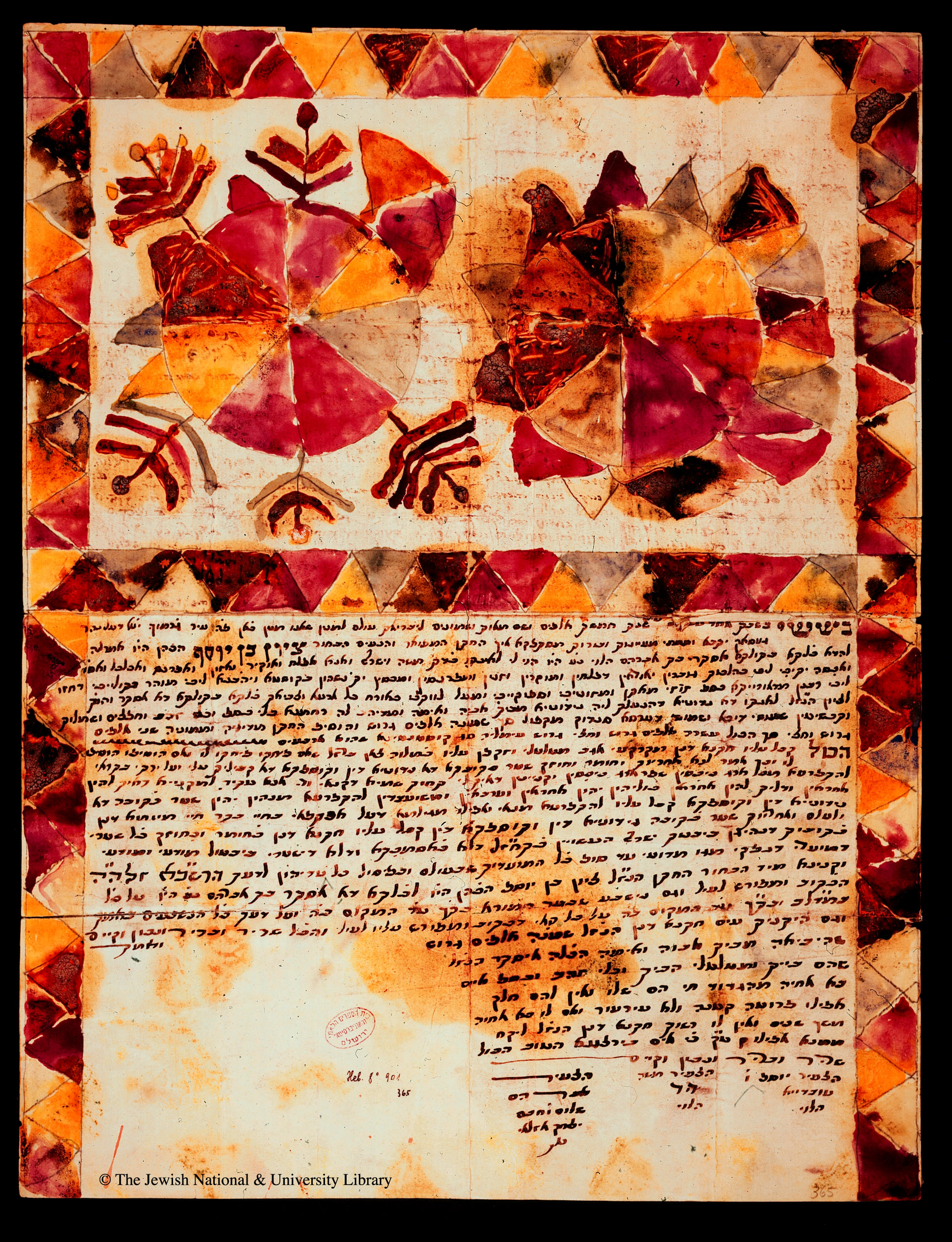 Ketubah from The Ketubbot Collection of the National Library of Israel